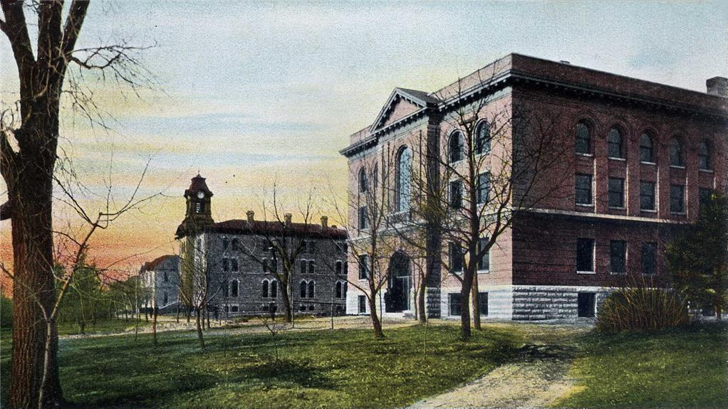 Gustavus Adolphus College, St. Peter, Minnesota; from a c. 1905 postcard published by A. C. Bosselman & Company, New York.